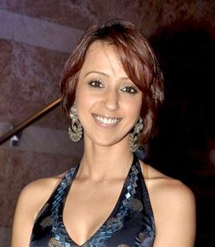 Ishita Arun at a fashion show in 2010